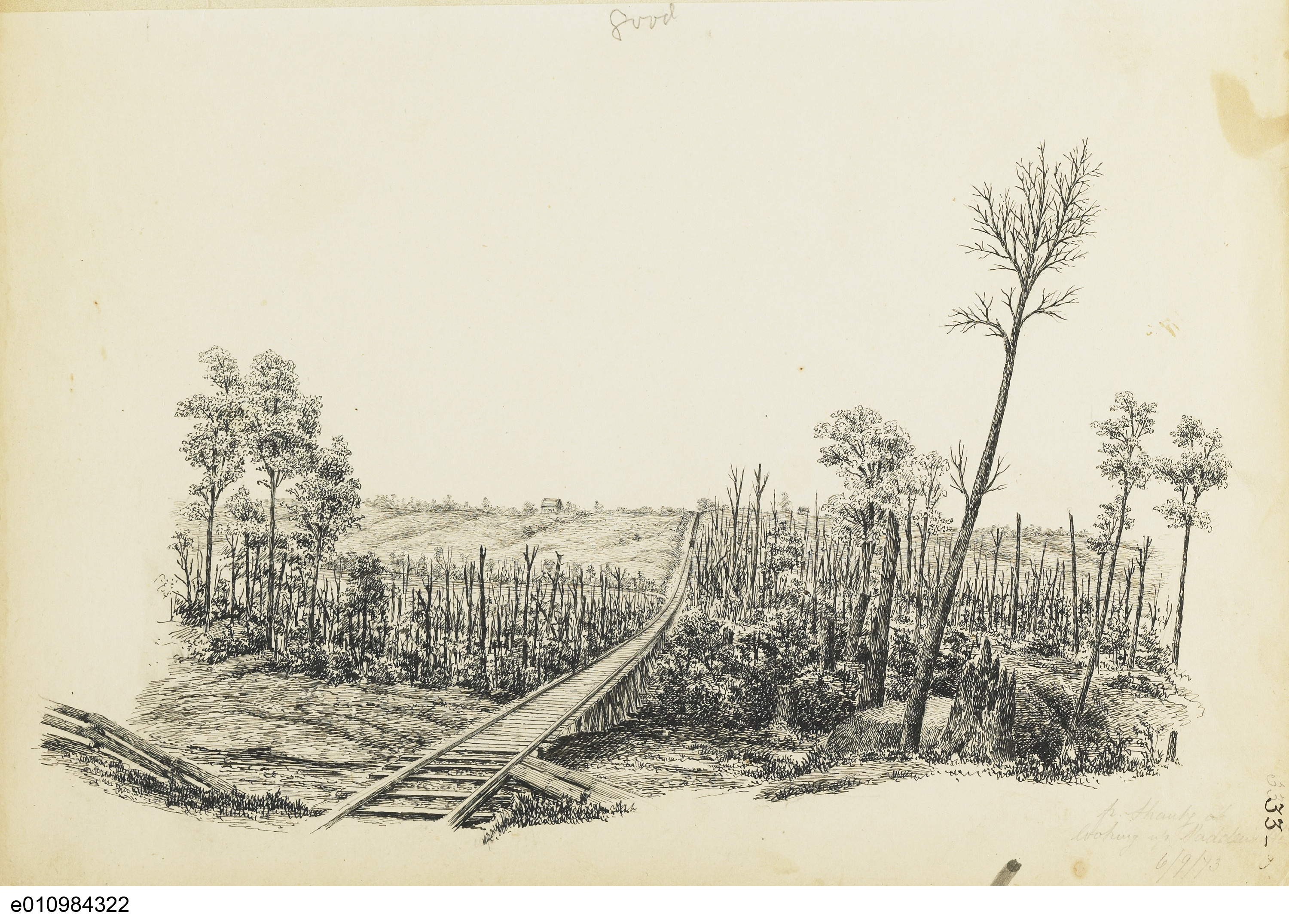 Padden's Hill, bridge at Lower Shanty, near Hematite Mine.Sketch from Haycock Mine Sketchbook, Library and Archives Canada